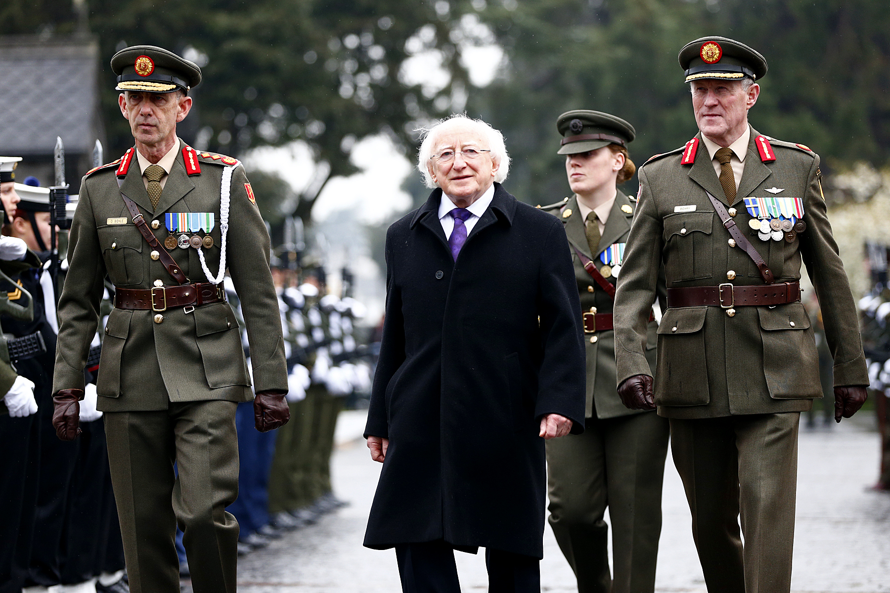 Chief of Staff Lt Gen O'Boyle, President Michael D Higgins and General Officer Commanding the 2 Brigade Brigadier General Beary